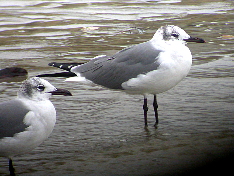 Laughing gull in breeding plumage